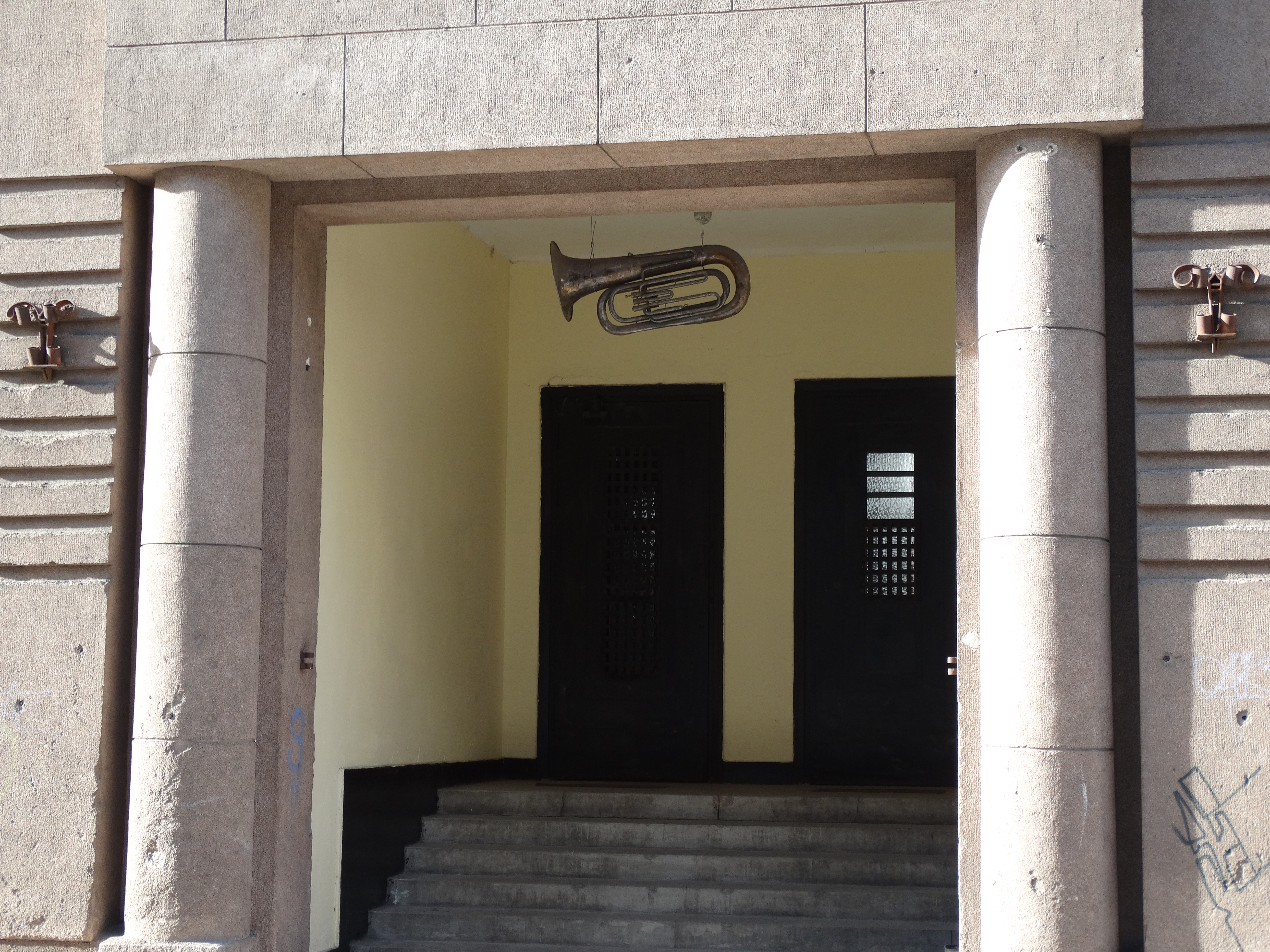 Juozas Gruodis Conservatory, Kaunas, Lithuania